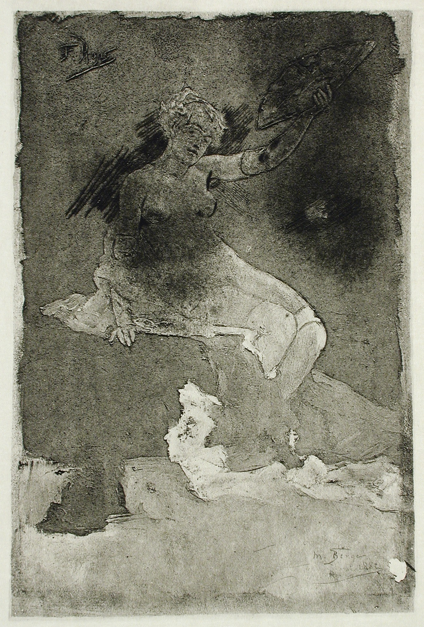 Belgium, 1882 Prints; etchings Soft-ground etching with possible drypoint Plate: 8 11/16 x 6 1/8 in. (22.07 x 15.56 cm); image: 7 7/16 x 4 15/16 in. (18.89 x 12.54 cm) Gift of Michael G. Wilson (M.80.277.78) Prints and Drawings